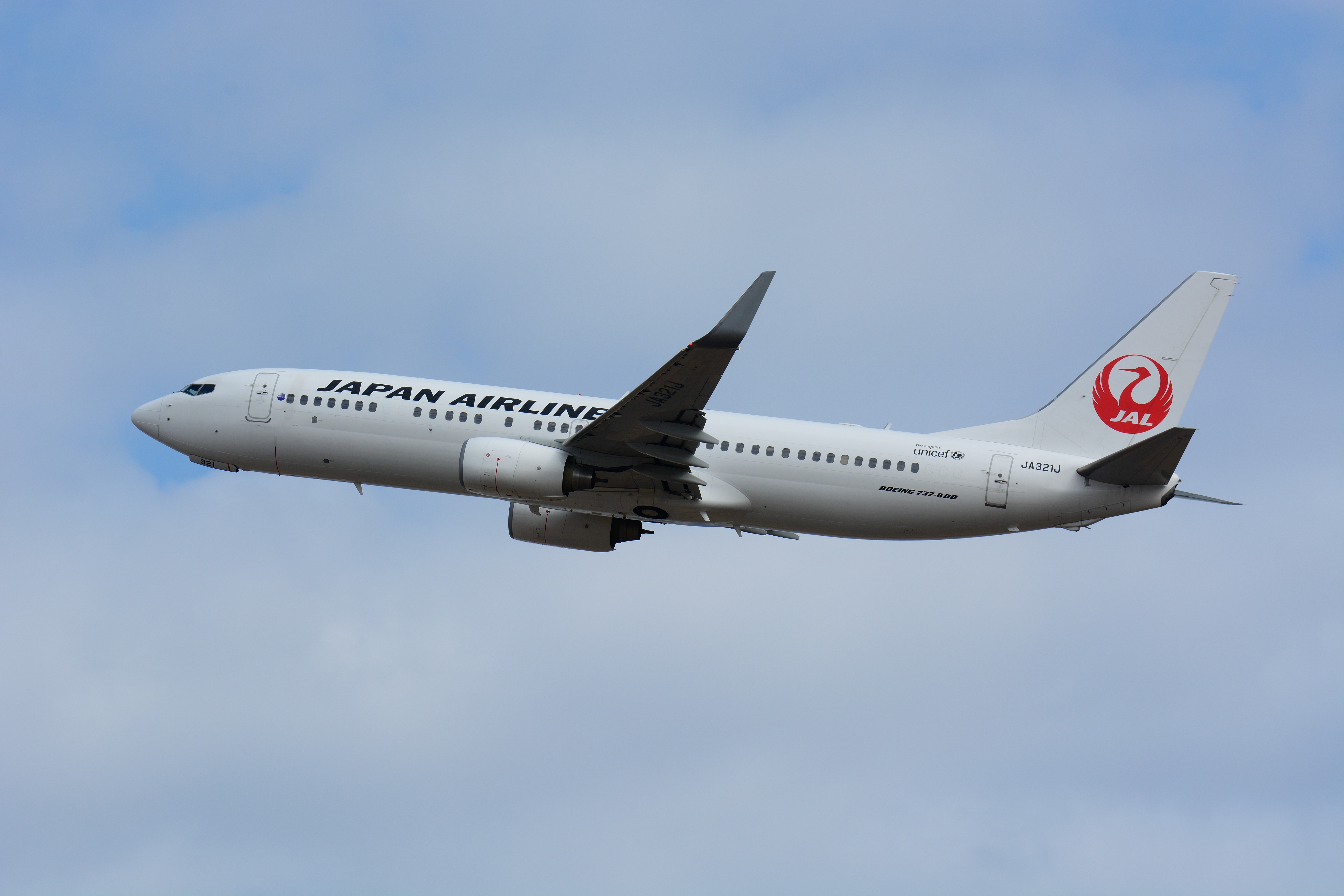 Japan Air Lines Boeing 737-800 JA321J NRT